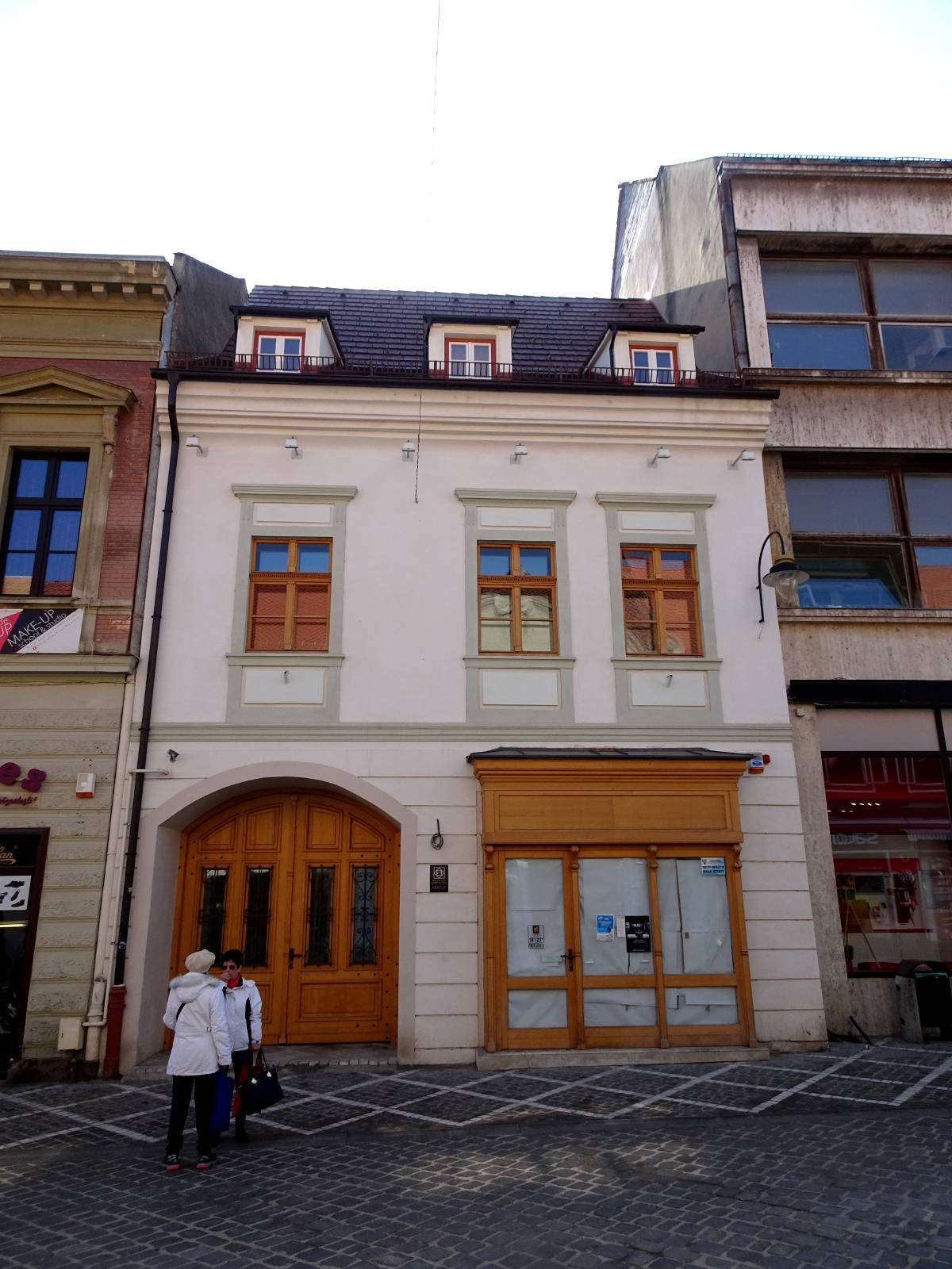 House on Republicii street, Brașov